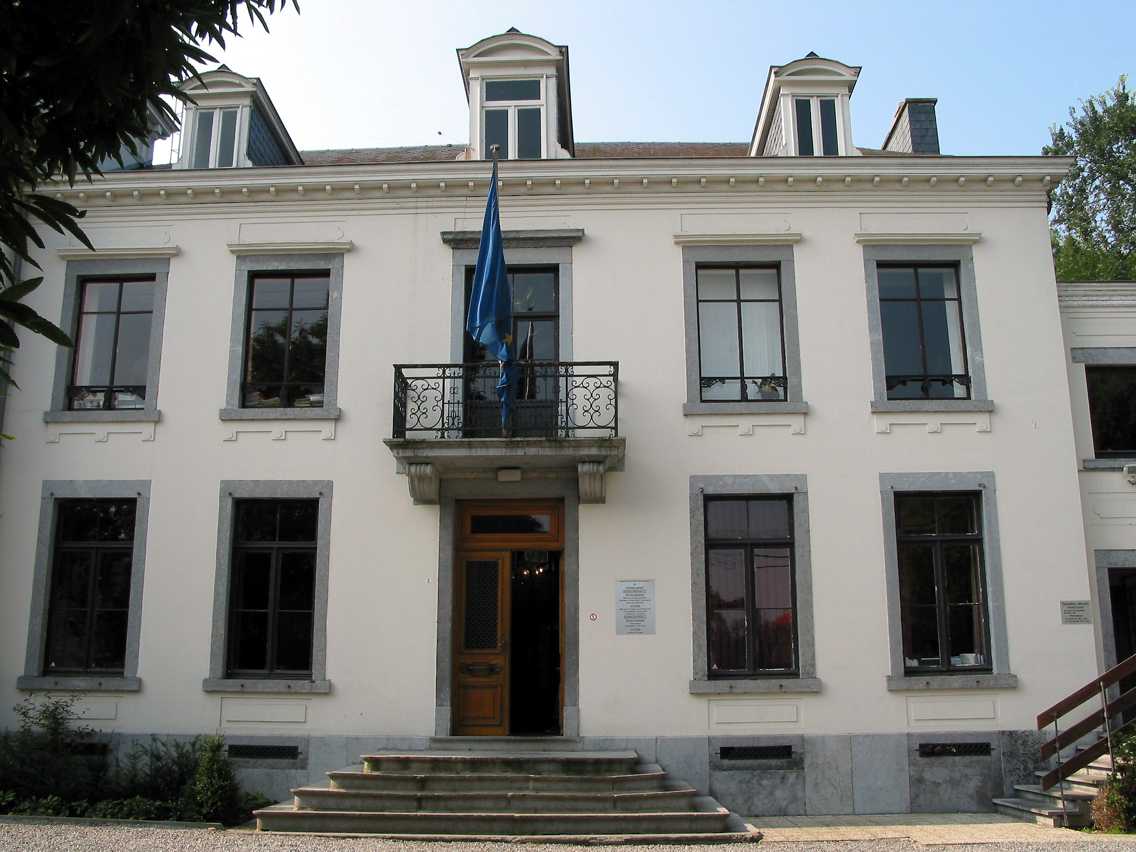 Noville-les-Bois (Belgium), the Fernelmont entity communal house. Walon: Novile-lès-Bwès (Bèljike), li mojon comunale di l’entitè di Fèrnèlmont.